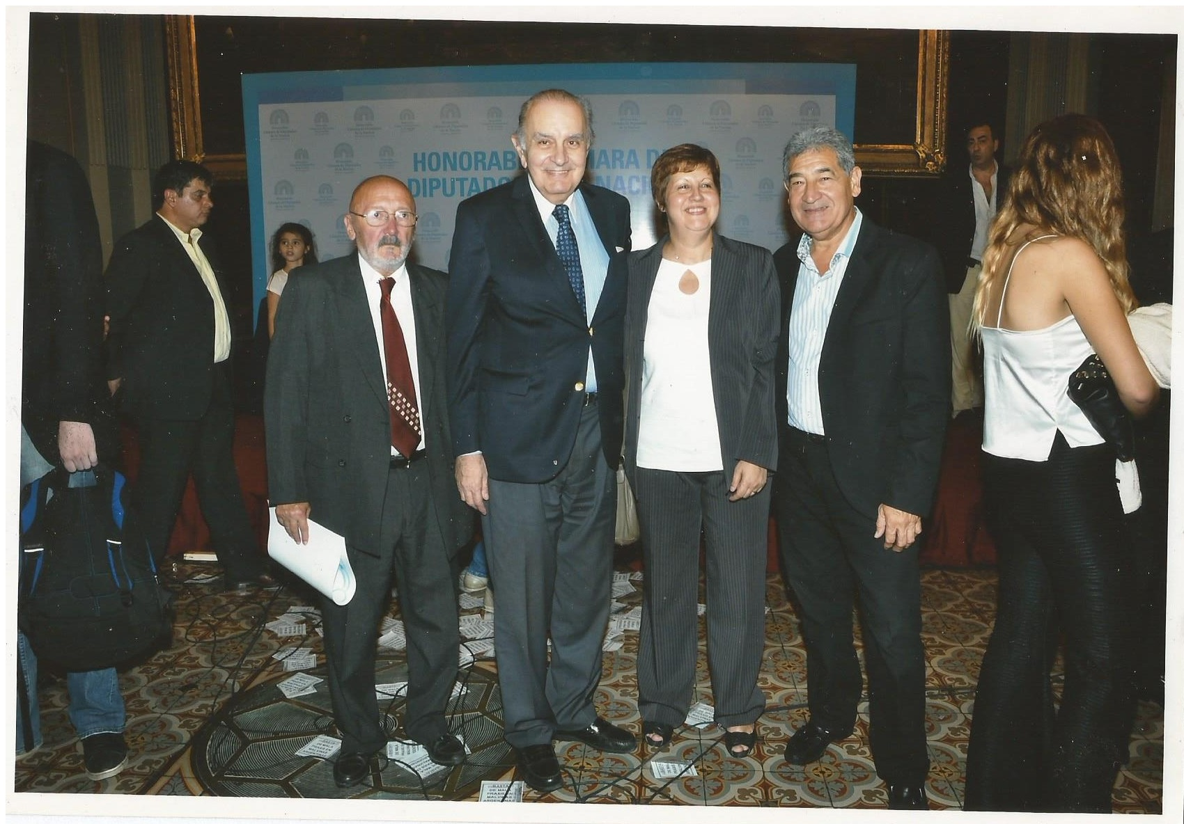 En el año 2015 recibio un diploma en la Honorable Camara de Diputados de la Nacion por su trayectoria y compromiso social.